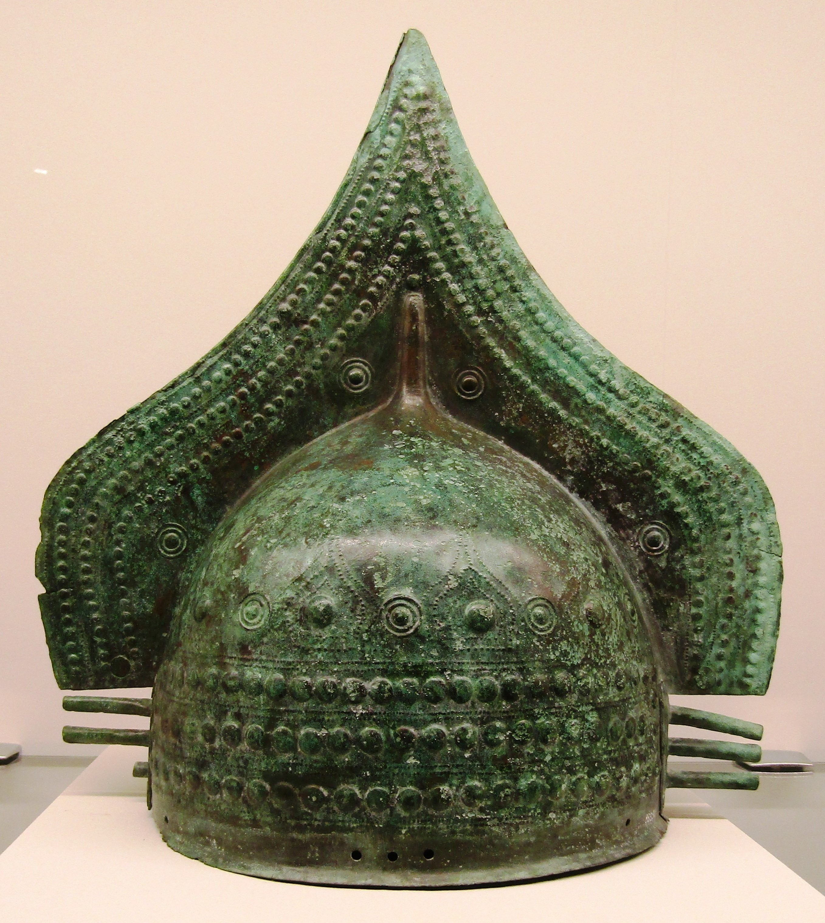 Etruschi Exibition in the Museo civico archeologico (Bologna)